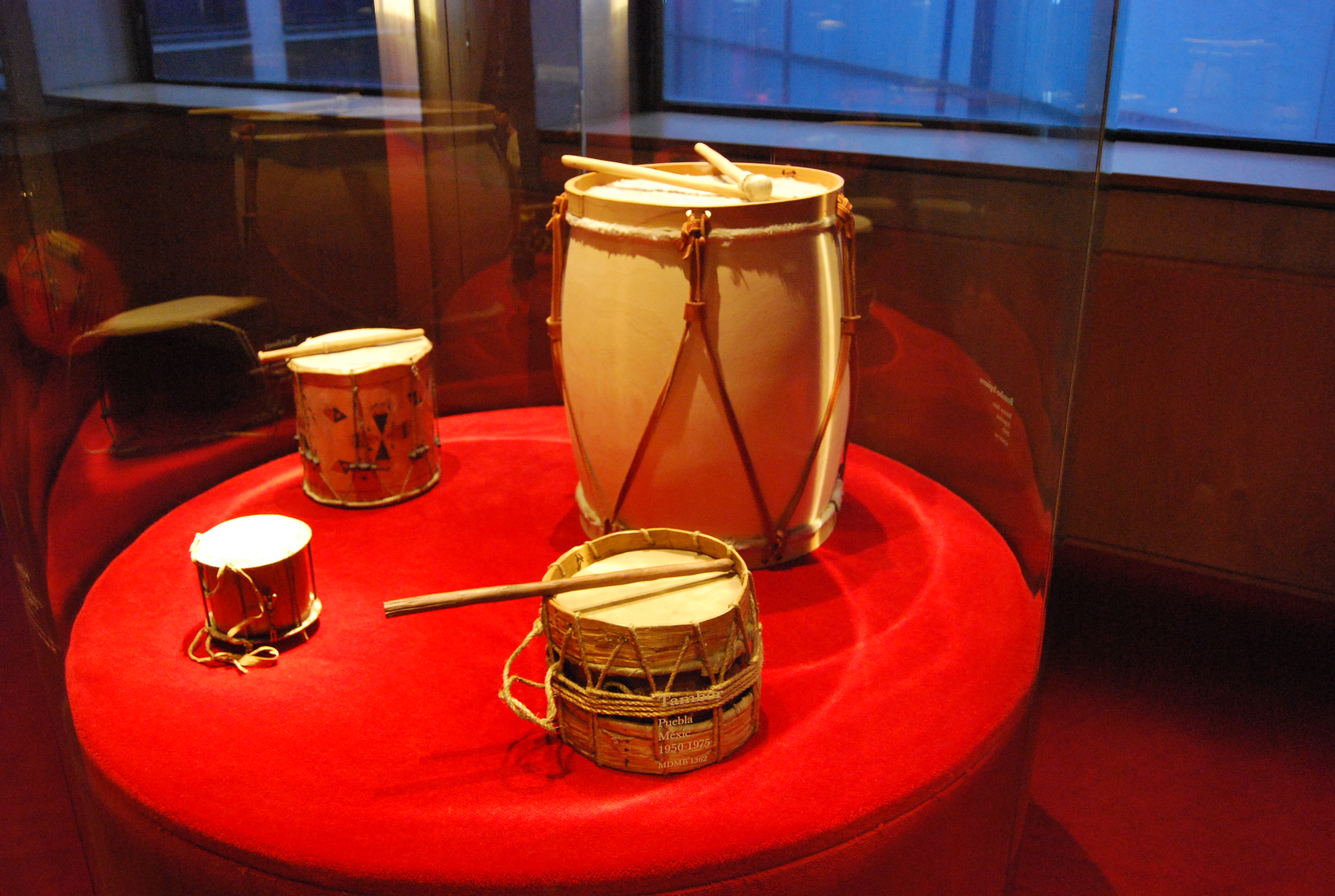 drum (museum)